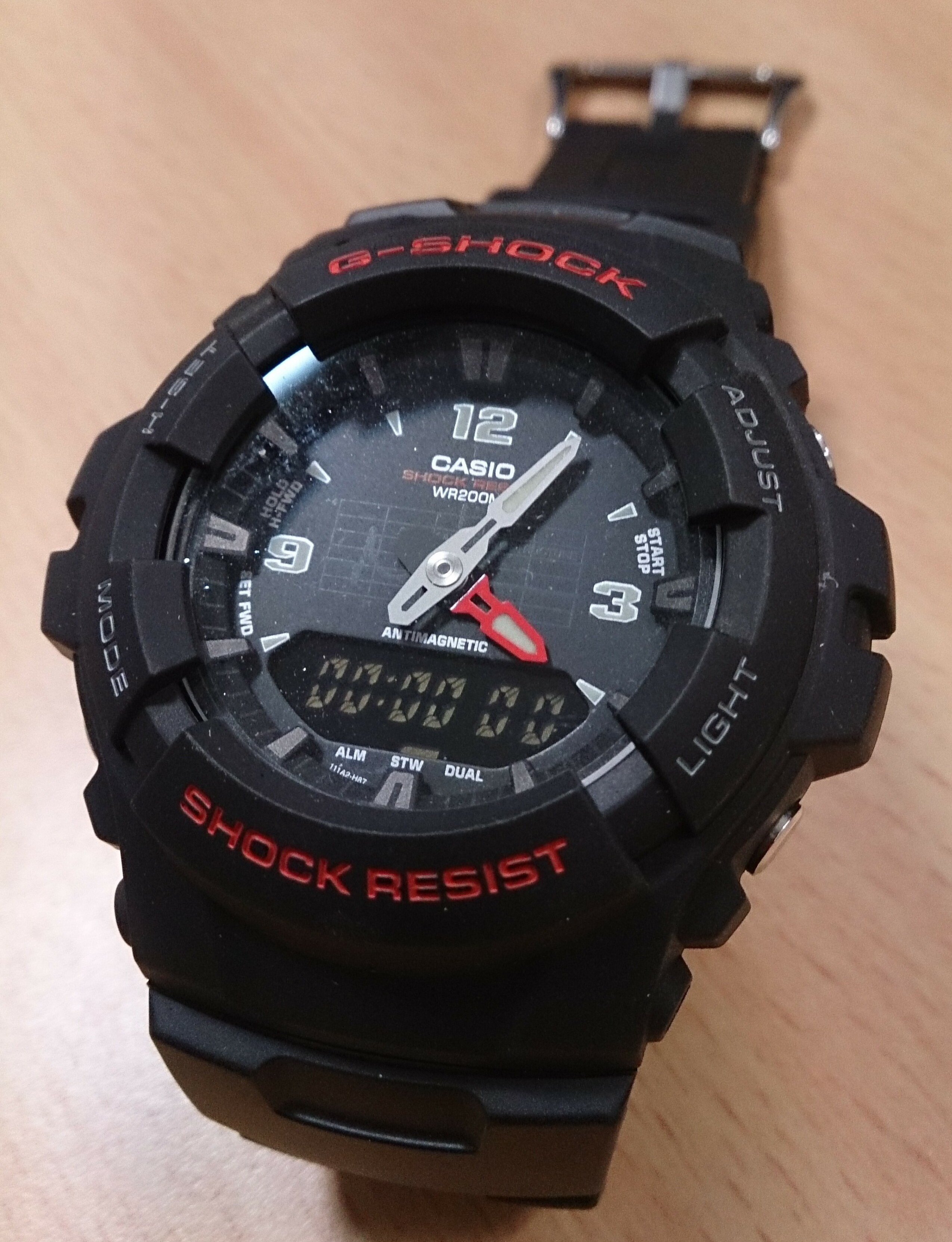 One of the cheapest and basic models